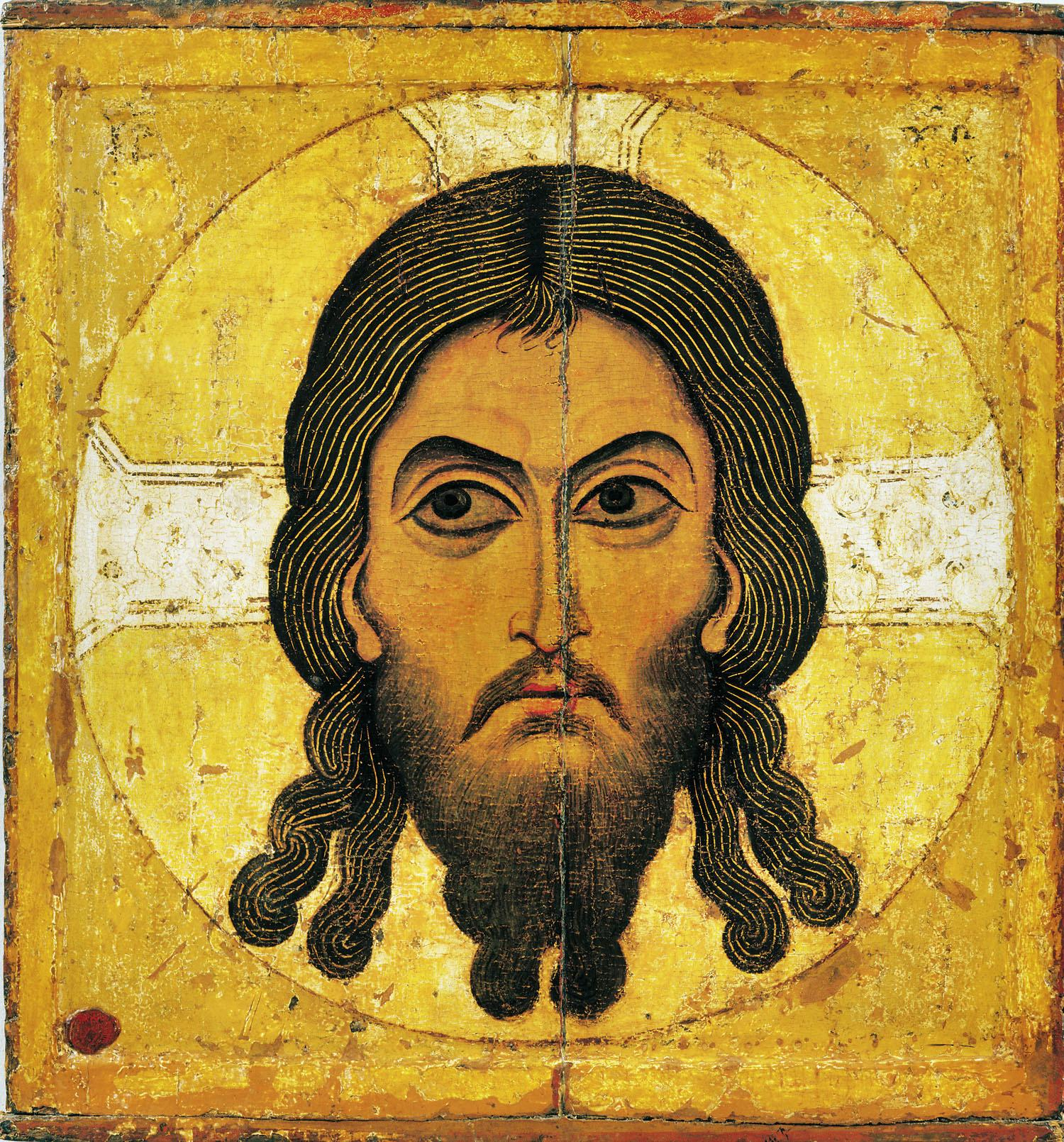 Christ Acheiropoietos (Made without hands) A 12th-century Novgorod icon from the Assumption Cathedral in the Moscow Kremlin